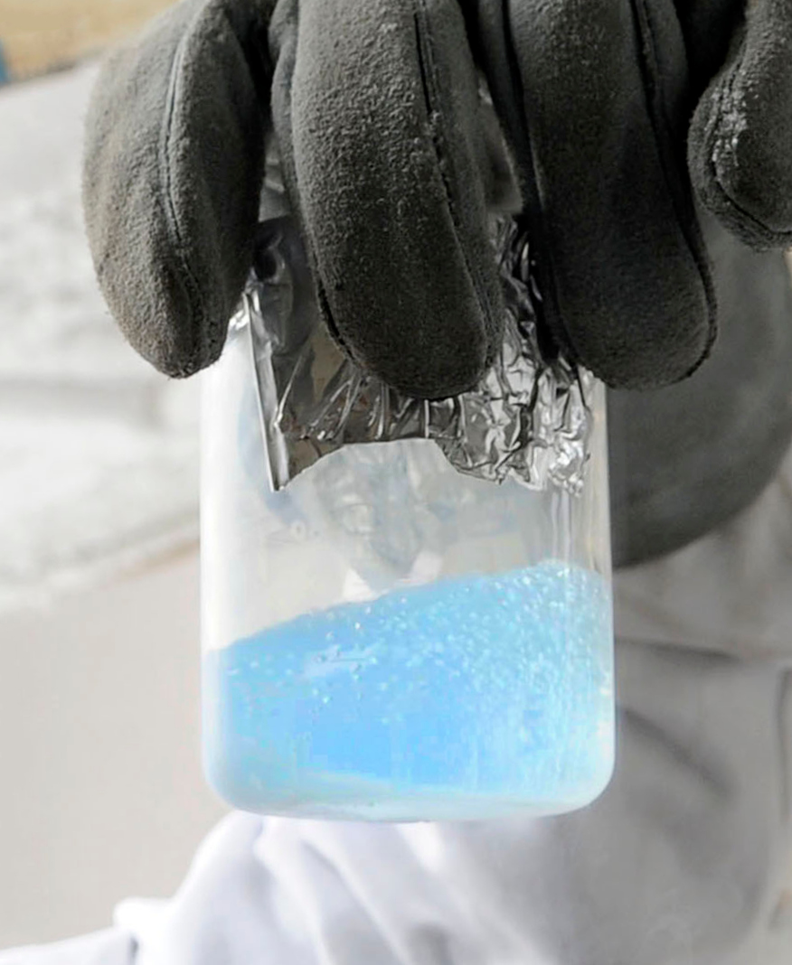 U.S. Air Force Staff Sgt. Dustin Volpi tests liquid oxygen for purity at Eielson Air Force Base, Alaska. Quality liquid oxygen is used to provide oxygen to pilots and aircrews at altitudes above 10,000 feet.